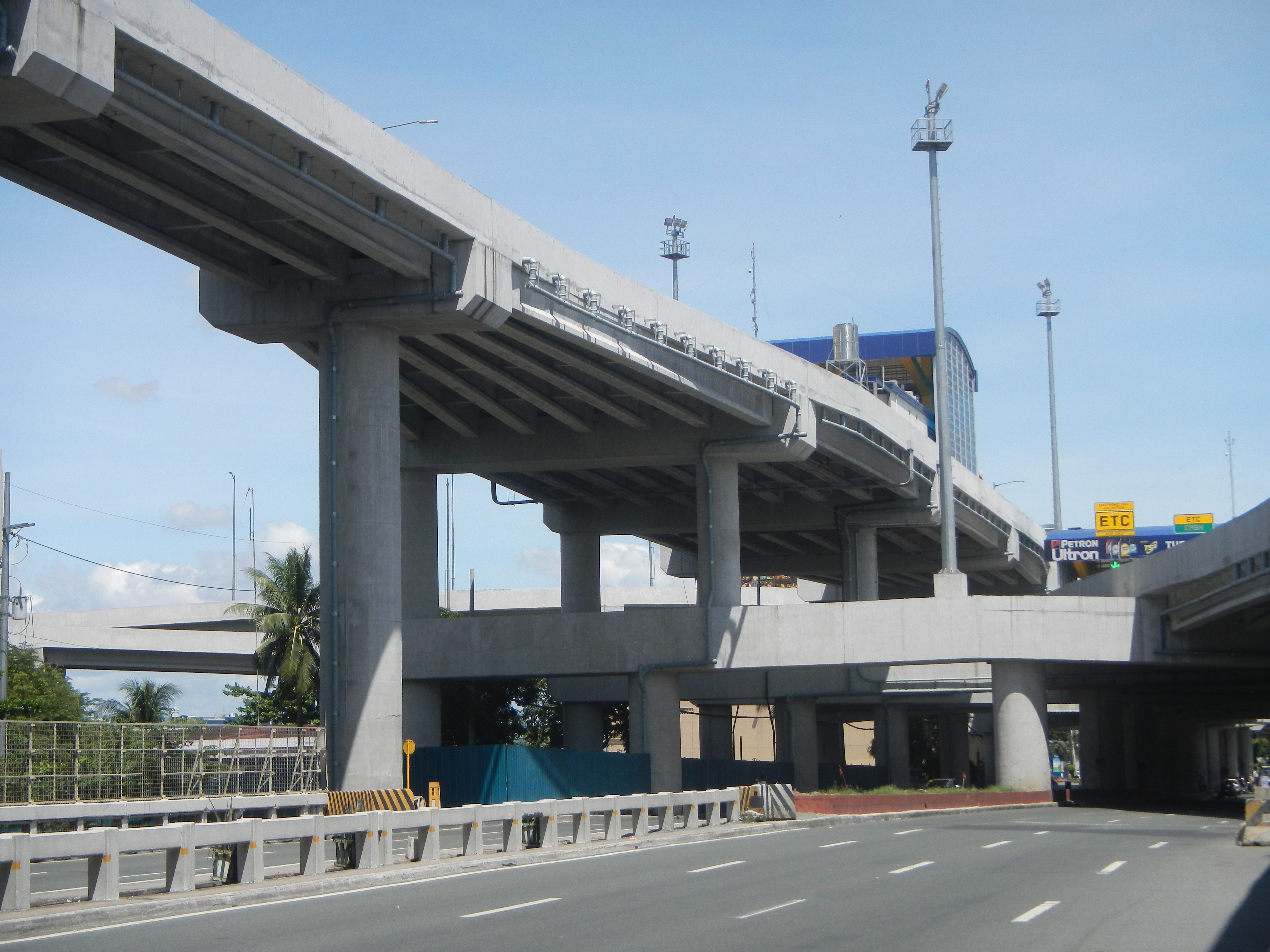 NAIA Road - NAIAx Junction, Intersection - Domestic Road, Tambo, Parañaque City; Tambo Bridge, Parañaque City River NAIA Road - NAIAx; KM Sta.7+909 20 metric tons load limit I.D. No. BO1833LZ MIA Road, Pasay City 14°30'37"N 121°0'29"E NAIA Road 14°30'57"N 121°0'9"E Domestic Road 14°31'19"N 121°0'3"E NAIAx to Domestic Road to NAIA Road Legislative districts of Parañaque 1st District, Districts and barangays, Barangay Tambo 14°30'59"N 120°59'20"E, Parañaque City to List of barangays of Metro Manila Barangay 193, Zone 20, District I, and Barangays 194, 195, 196, 197, 198 and 199, Zone 20, District I, Pasay City Improvement of NAIA Road Outfall from Barangay Tambo Bridge to Nayong Filipino Creek P 36.741 million NAIA Expressway Phase 1 (Skyway) and Phase 2 (NAIAx) (Note: Judge Florentino Floro, the owner, to repeat, Donor Florentino Floro of all these photos Judge Floro hereby donate gratuitously, freely and unconditionally Judge Floro all these photos to and for Wikimedia Commons, exclusively, for public use of the public domain, and again without any condition whatsoever).